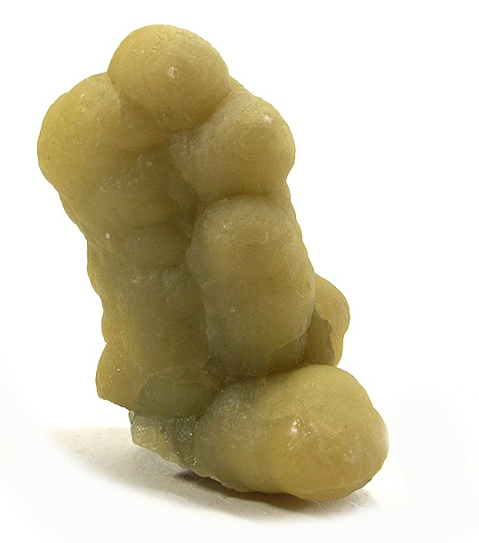 Cadmium, Smithsonite Locality: Dam Project, near Hezhou City, Guangxi Province, China Size: miniature, 5 x 3.7 x 2.2 cm Cadmium Smithsonite Another superb smithsonite from any locality, but the extra value of the unusual cadmian-induced yellow color, and the locality rarity, really adds to the lure of the specimen.